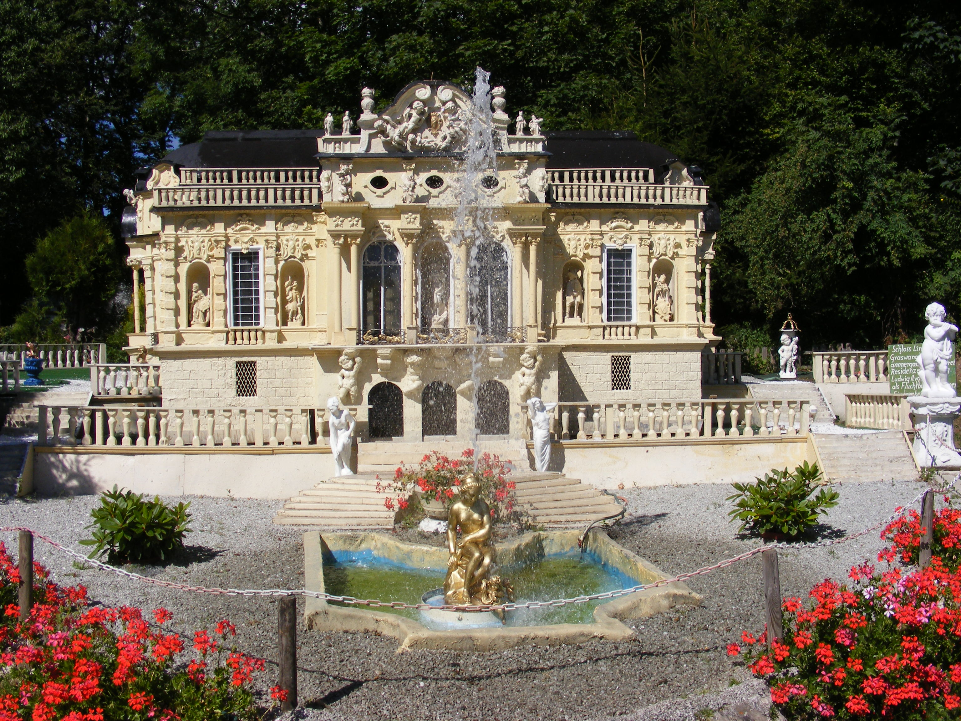 Scale model of Linderhof Palace in Ettal, Bavaria, in a model park in Mönichkirchen (Austrian federal state of Lower Austria)